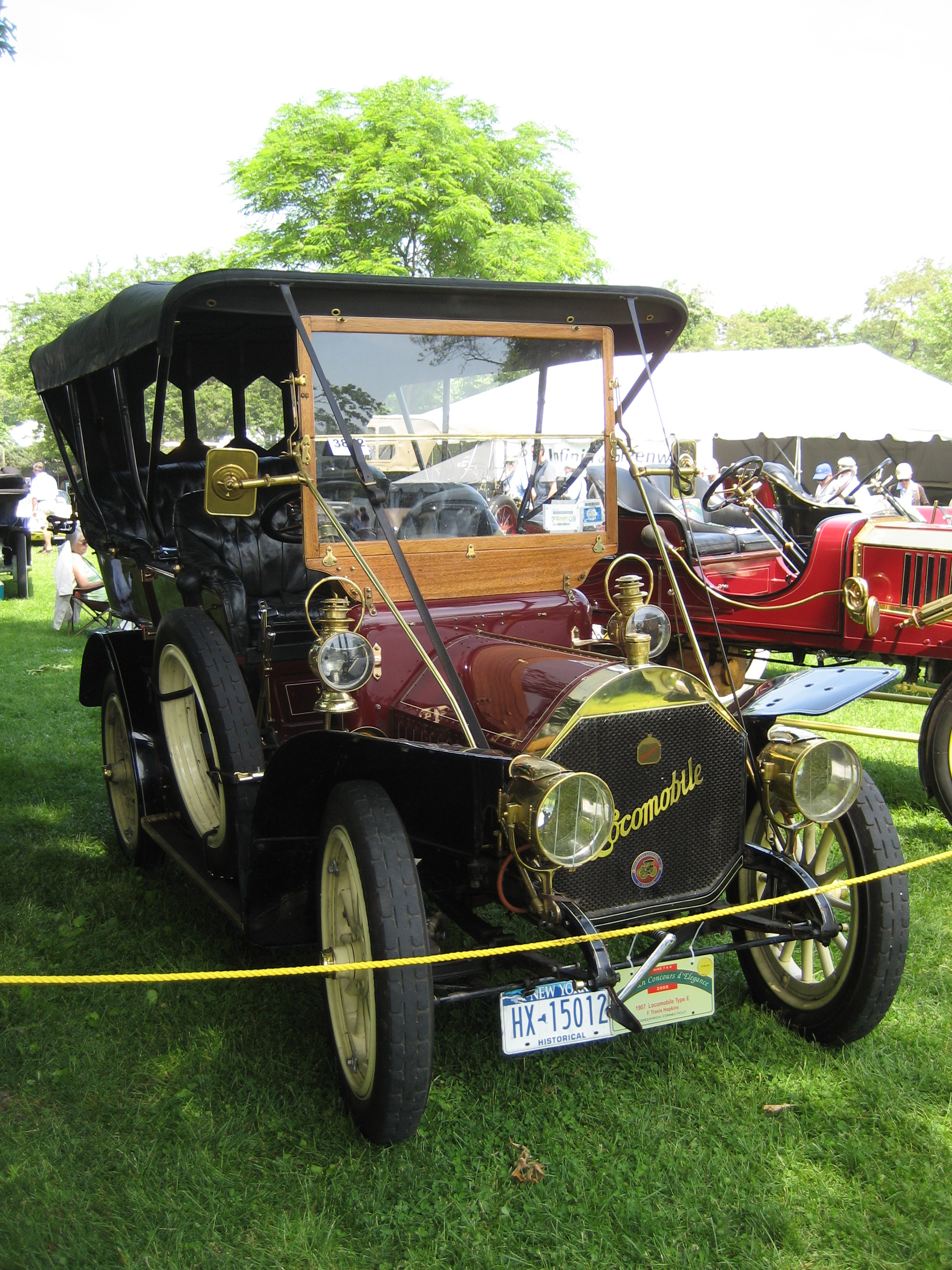 1907 Locomobile Type E Touring photographed at the 2008 Greenwich Concours d'Elegance in Greenwich, Connecticut.